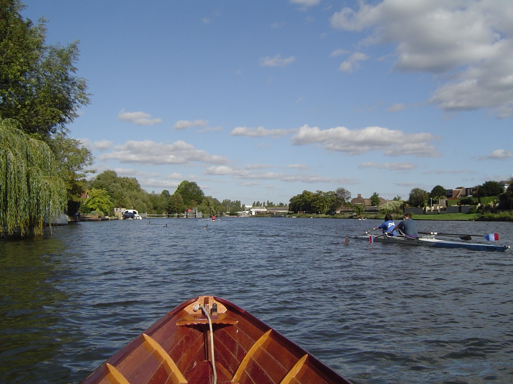 Sunbury lock and weir looking downstream from a skiff (copy of own work on English wiki)